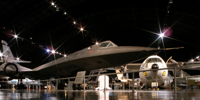 Lockheed SR-71A, National Museum of the United States Air Force, Dayton, Ohio, USA